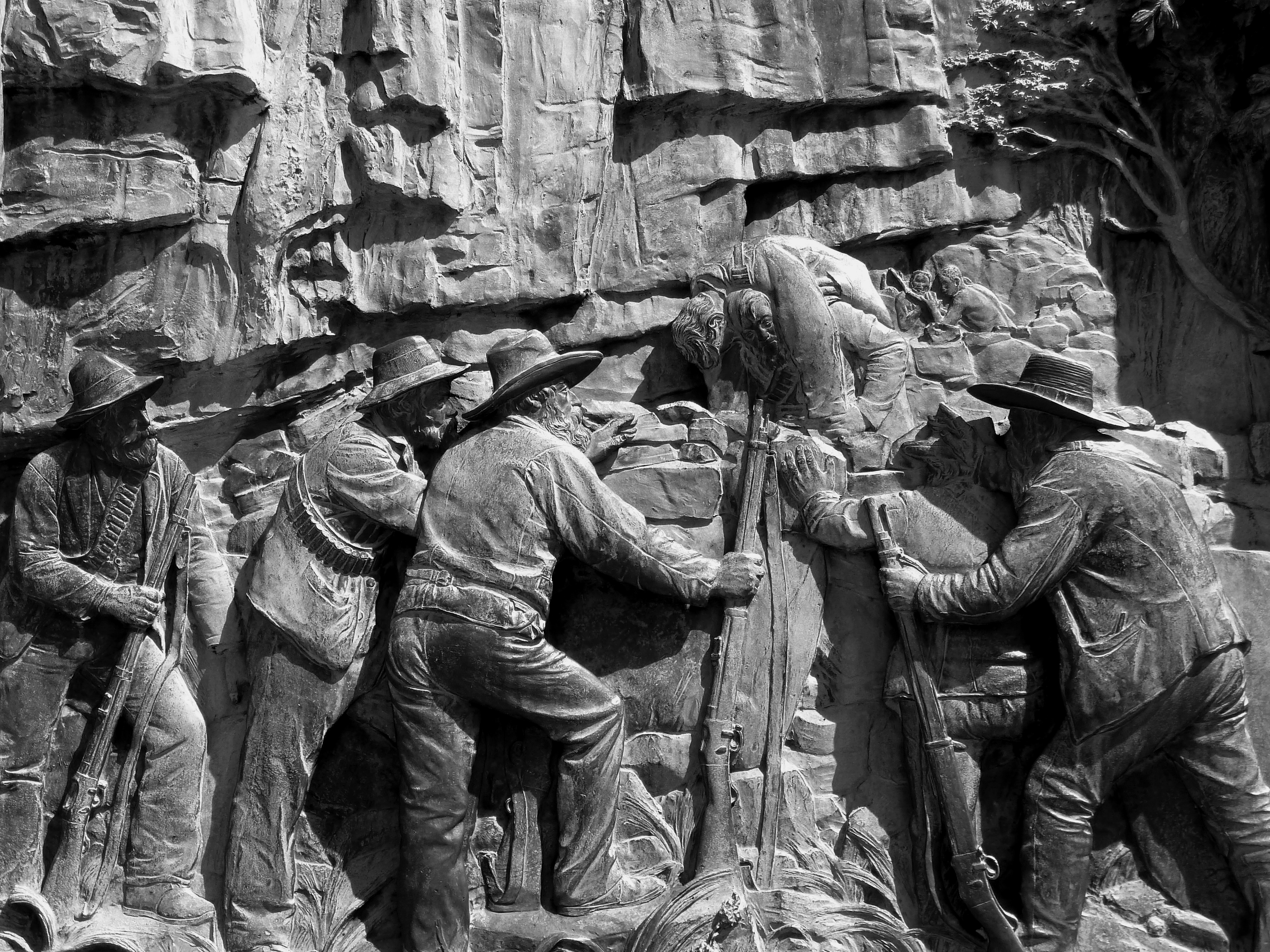 Eastern side panel of the Kruger statue on Church square, Pretoria. It depicts field cornet Paul Kruger rescuing the body of Commandant-general Piet Potgieter at Makapansgat (Ndebele: Moshate), current Limpopo province, in November 1854. The siege of the cave lasted from 25 October to 21 November 1854. On 6 November Piet Potgieter was inspecting the barricaded cave entrance from a precipice above. When struck by the sniper bullet, he tumbled forward and landed at the entrance to the cave. To rescue his body from probable ritual mutilation, it was retrieved from behind the 1,8 m high barricade by the 29 year old Paul Kruger and a Tsonga private from Zoutpansberg. Potgieter's coffin was transported by a guard of honor to his farm Middelfontein (some 20 km north of Nylstroom), where he was buried.[1]